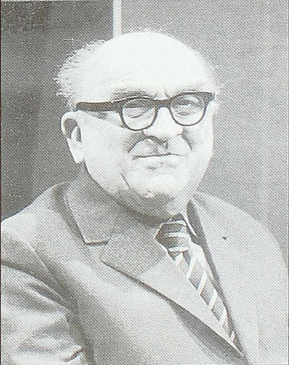 Petar Bingulac (1897-1990), Serbian diplomat, musicologist, music writer and critic. Српски (ћирилица): Петар Бингулац (1897-1990) дипломата, музиколог, музички писац, музички педагог и критичар.